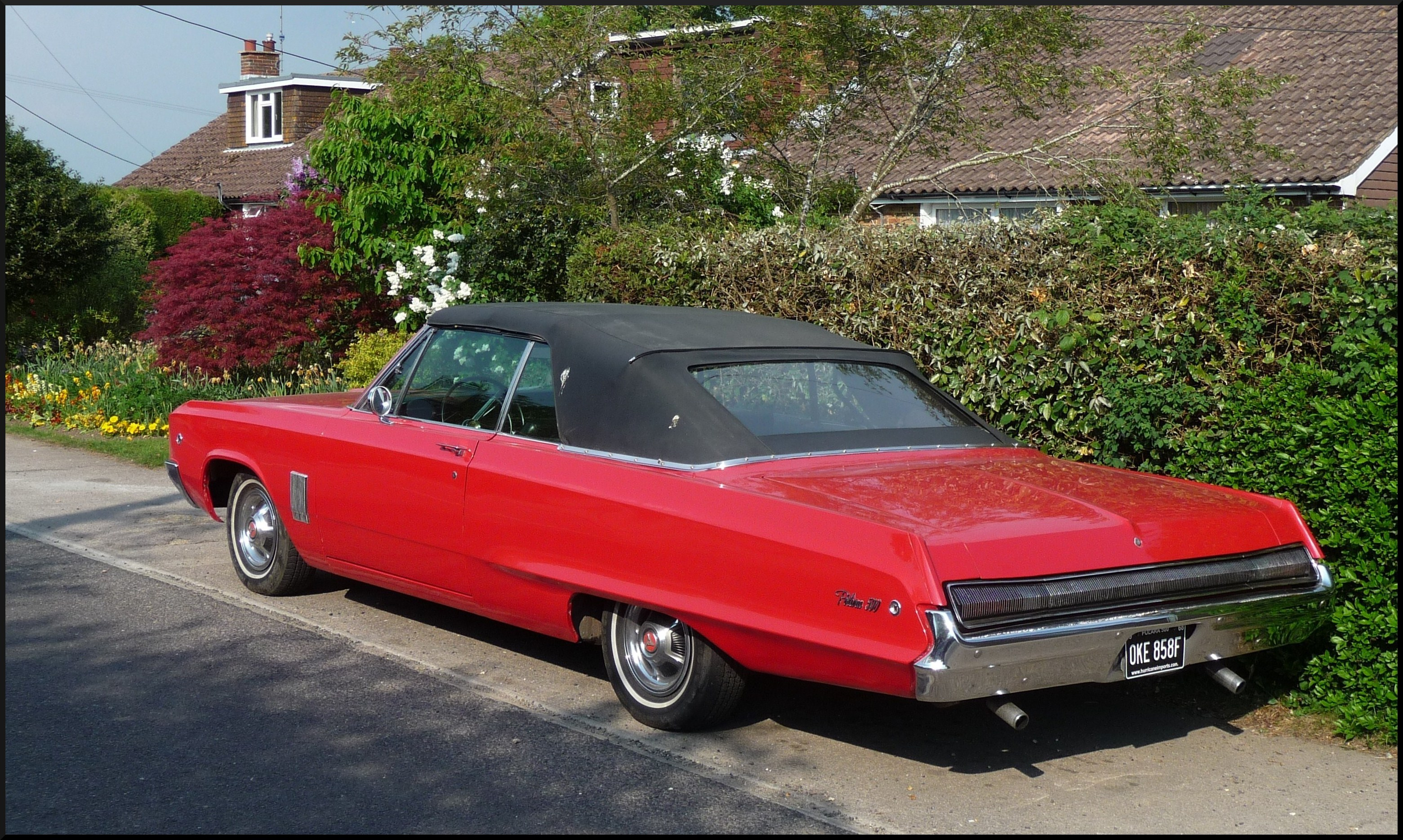 1968 Dodge Polara 500 convertible/ragtop. Comes with a 440 V8, power top and windows. Currently listed for sale at around 10k.